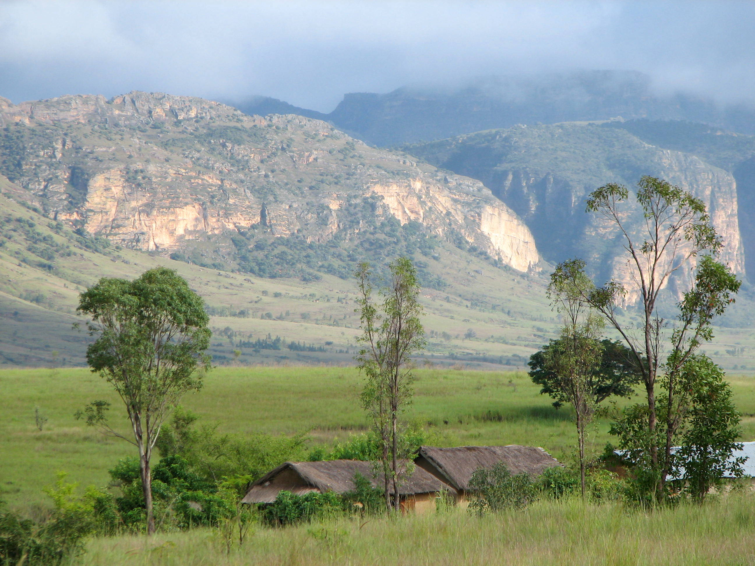 Isalo National Park, Madagascar